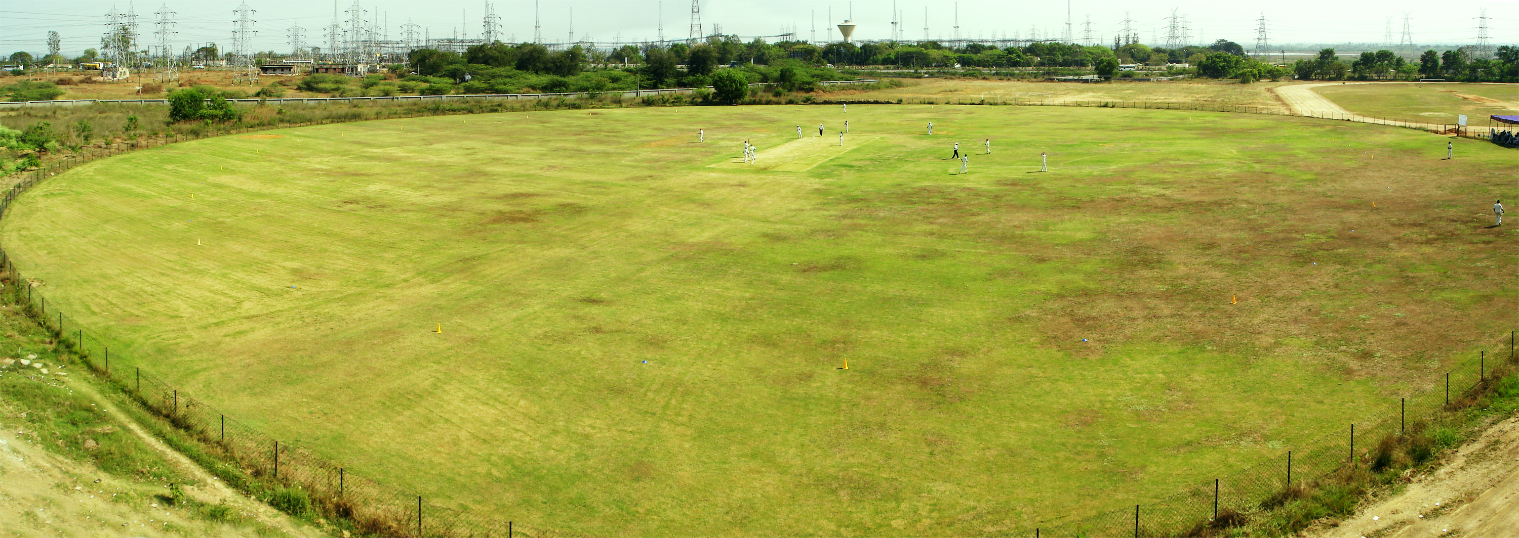 A match in progress at the SVCE cricket ground.